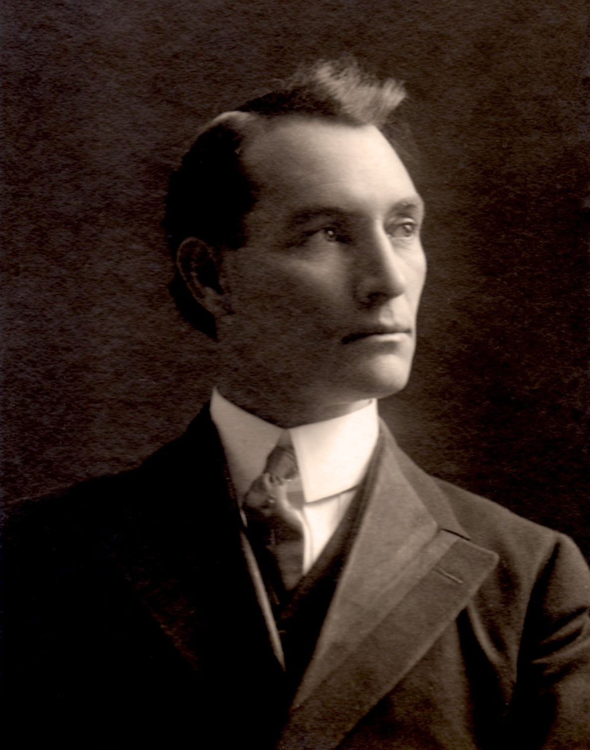 Taken when he was governor of Nevada